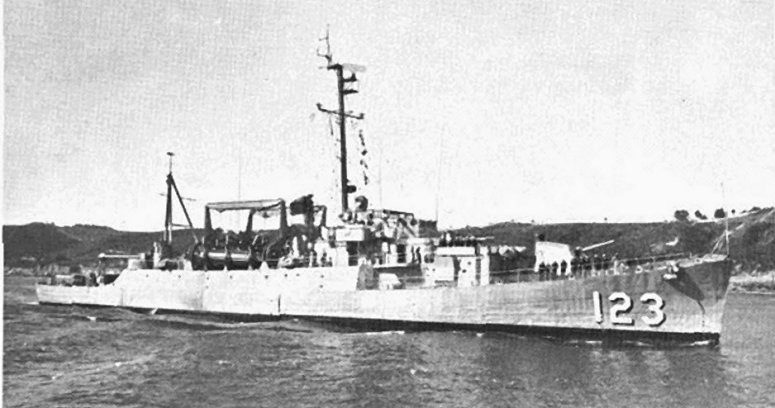 The U.S. Navy high-speed transport USS Diachenko (APD-123) entering San Diego harbor, California (USA), after completing her second tour in Vietnam, 8 April 1967.